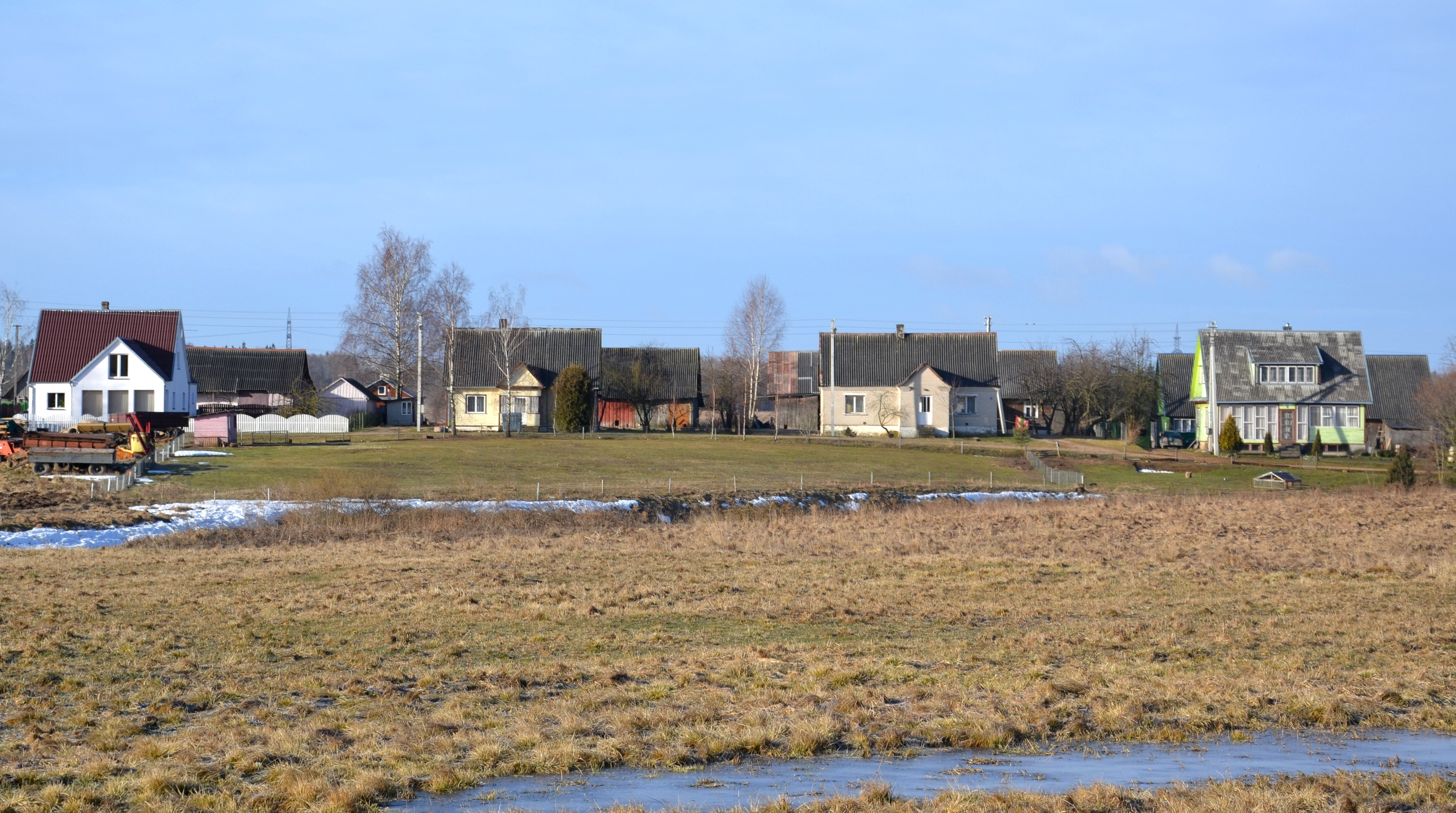 Stoniava village, Kaišiadorys district, Lithuania